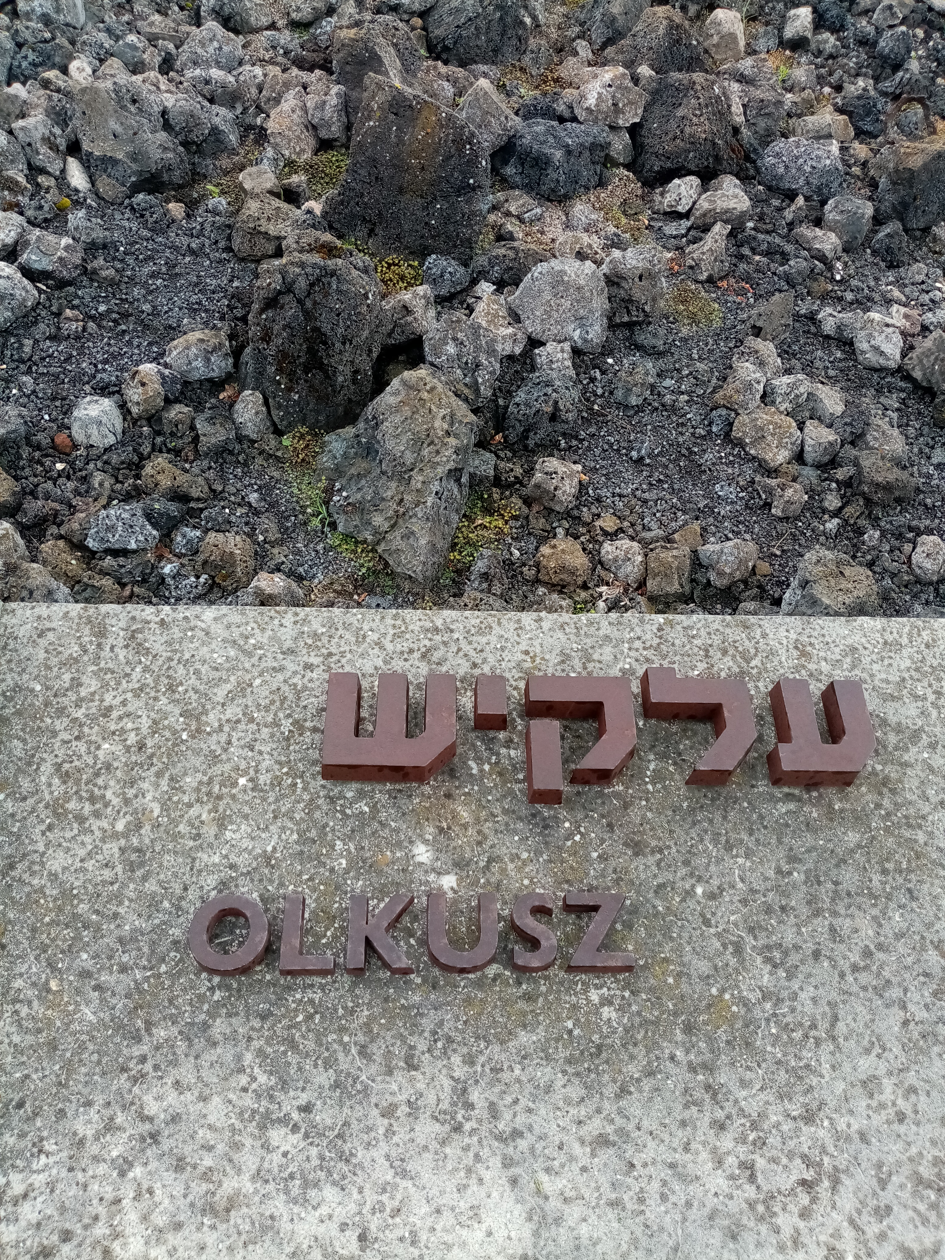 Museum and Memorial in Bełżec, commemorating victims of the Nazi-German extermination camp. Cast-iron names of the towns around the “Stone Pile”.